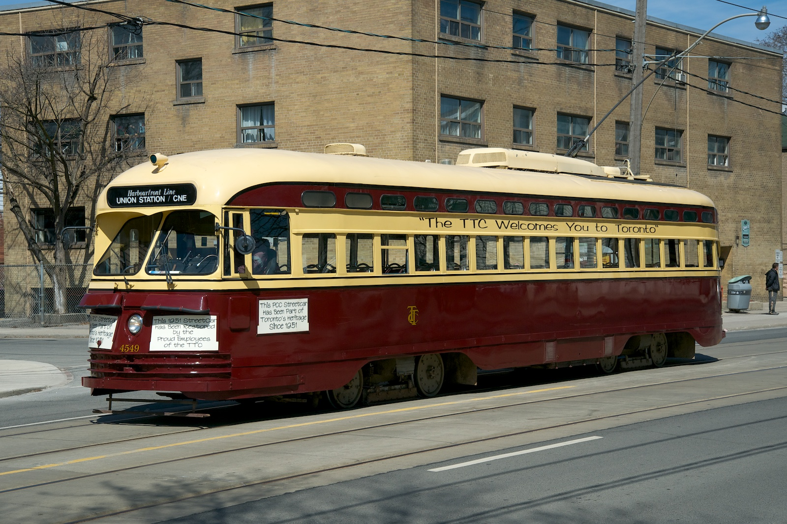 TTC A-15 class PCC (Presidents' Conference Committee) car #4549 travelling on Queen Street East, Easter Sunday, April 20 2014. One of 19 cars rebuilt 1986-1992. More information here